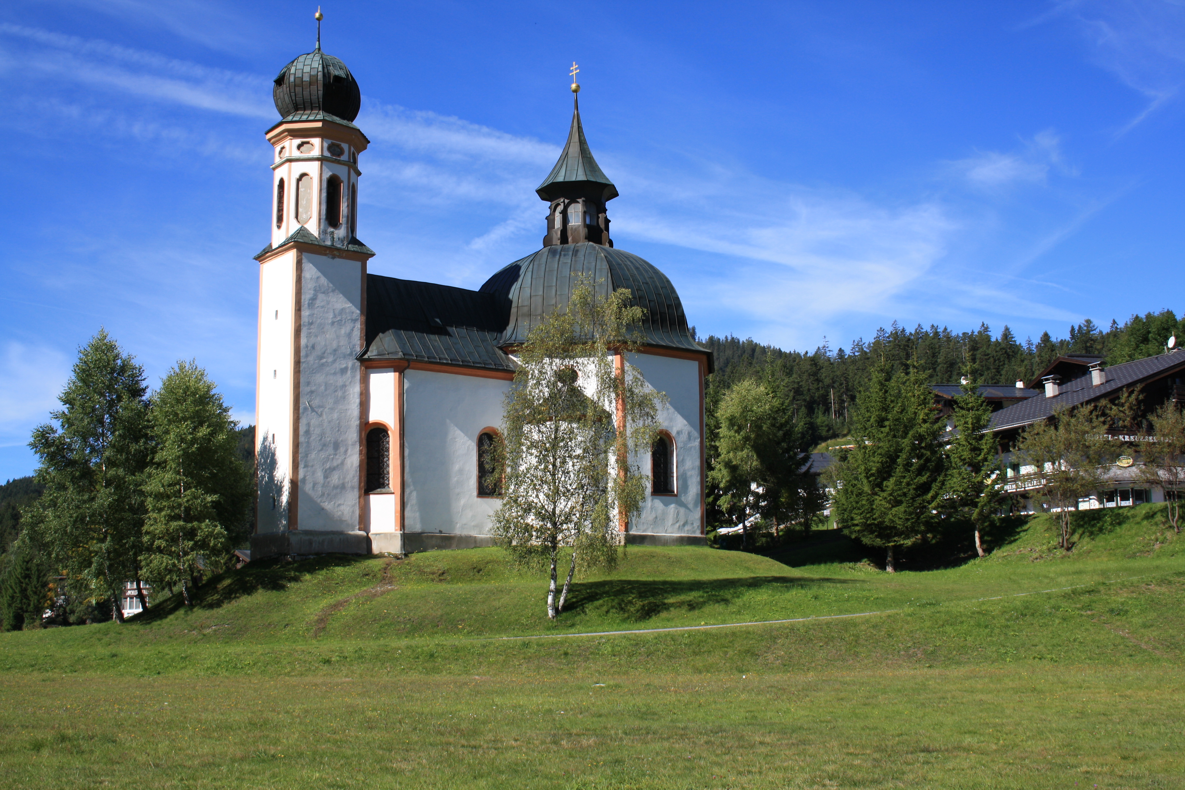 Austria, Tyrol (state), Seefeld in Tirol. Seekirchl Heilig Kreuz.